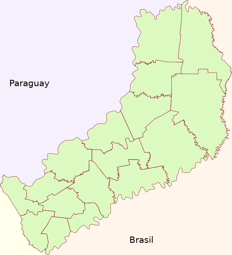 It shows Misiones province administrative boundaries, its departments and its capital (Posadas).